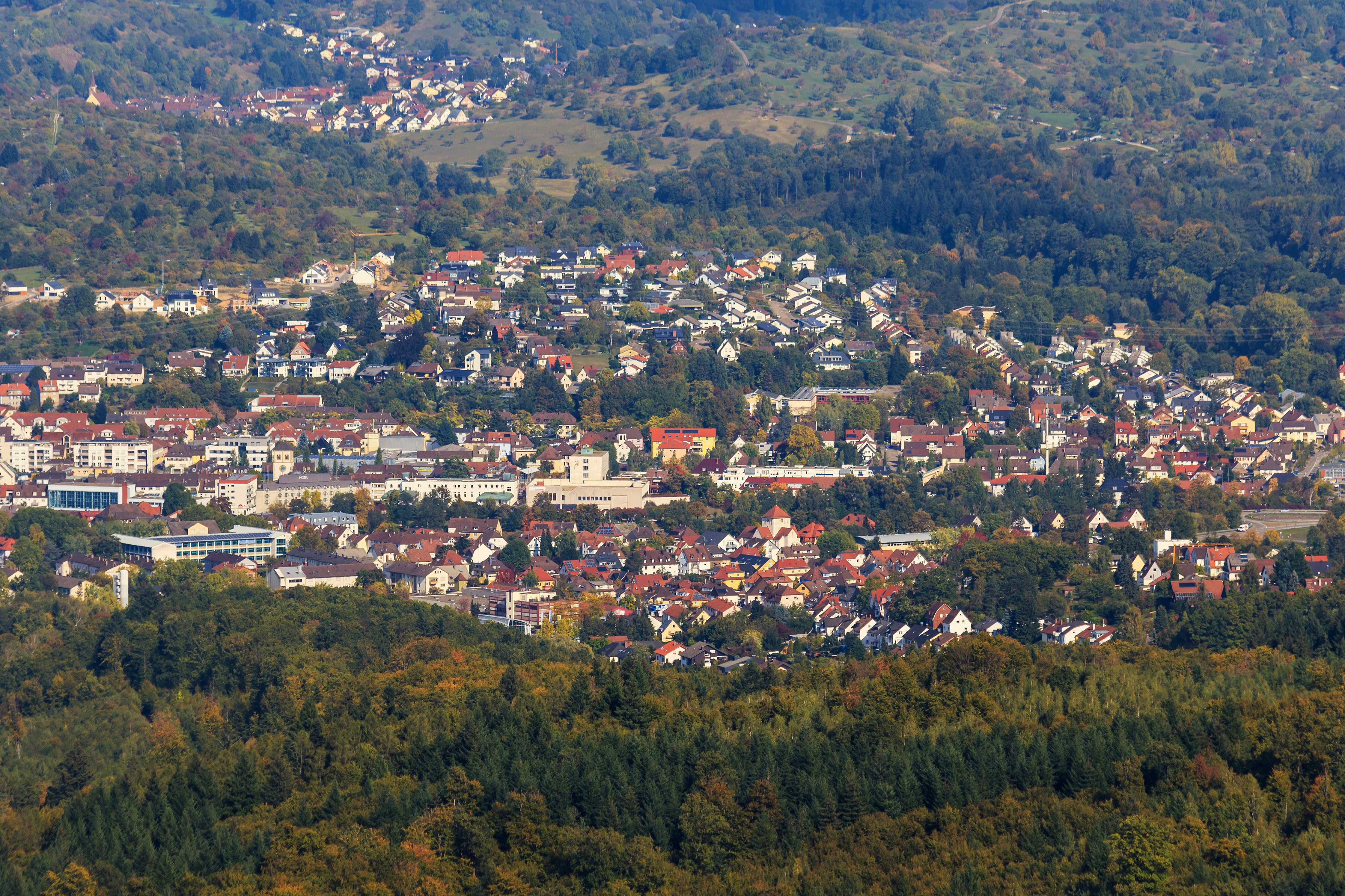 View of Gaggenau from Ebersteinburg in Baden-Baden (BW, Germany).